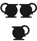 Unknown language: Caronia-Stemma